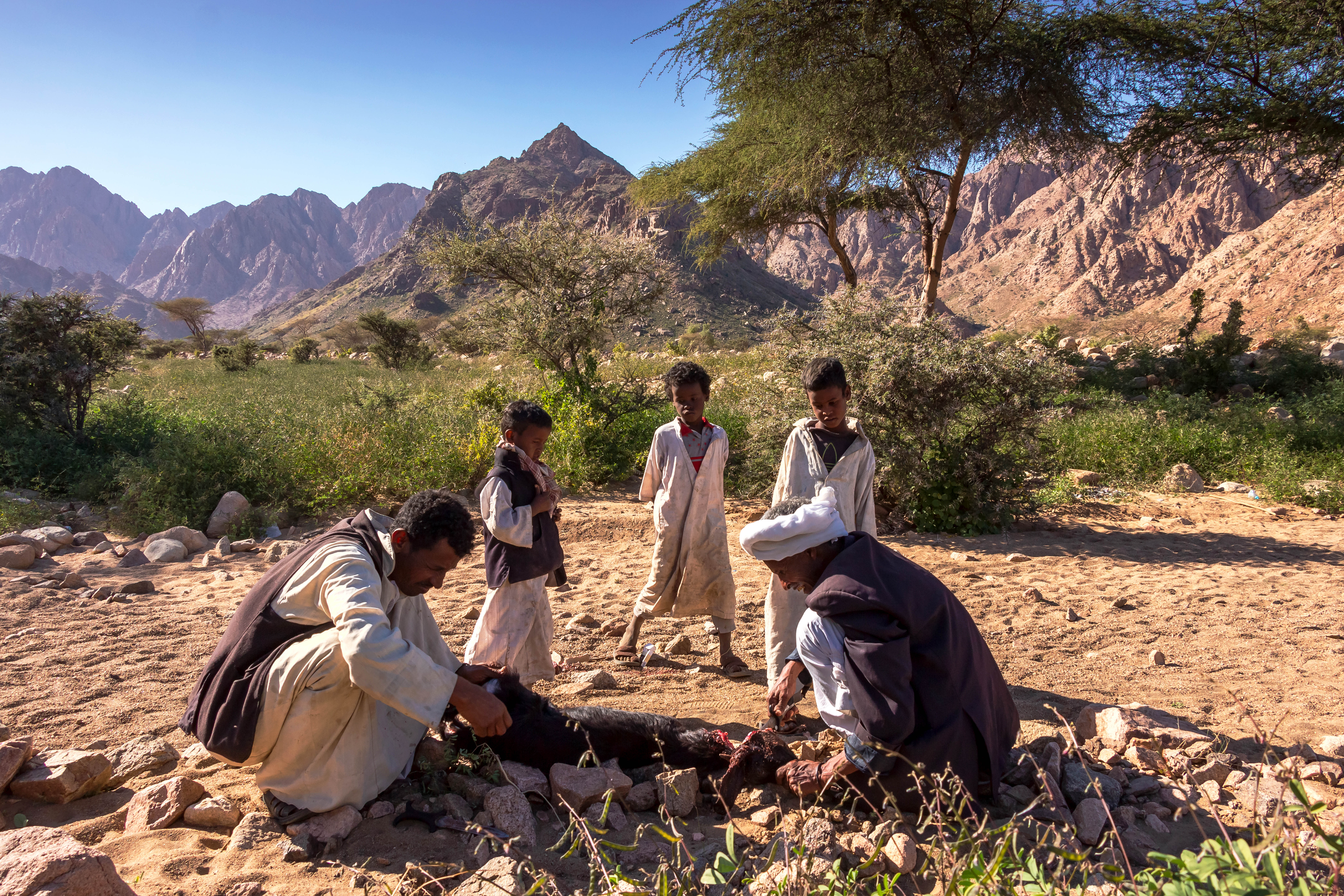 This is an image with the theme "Africa on the Move or Transport" from: Egypt